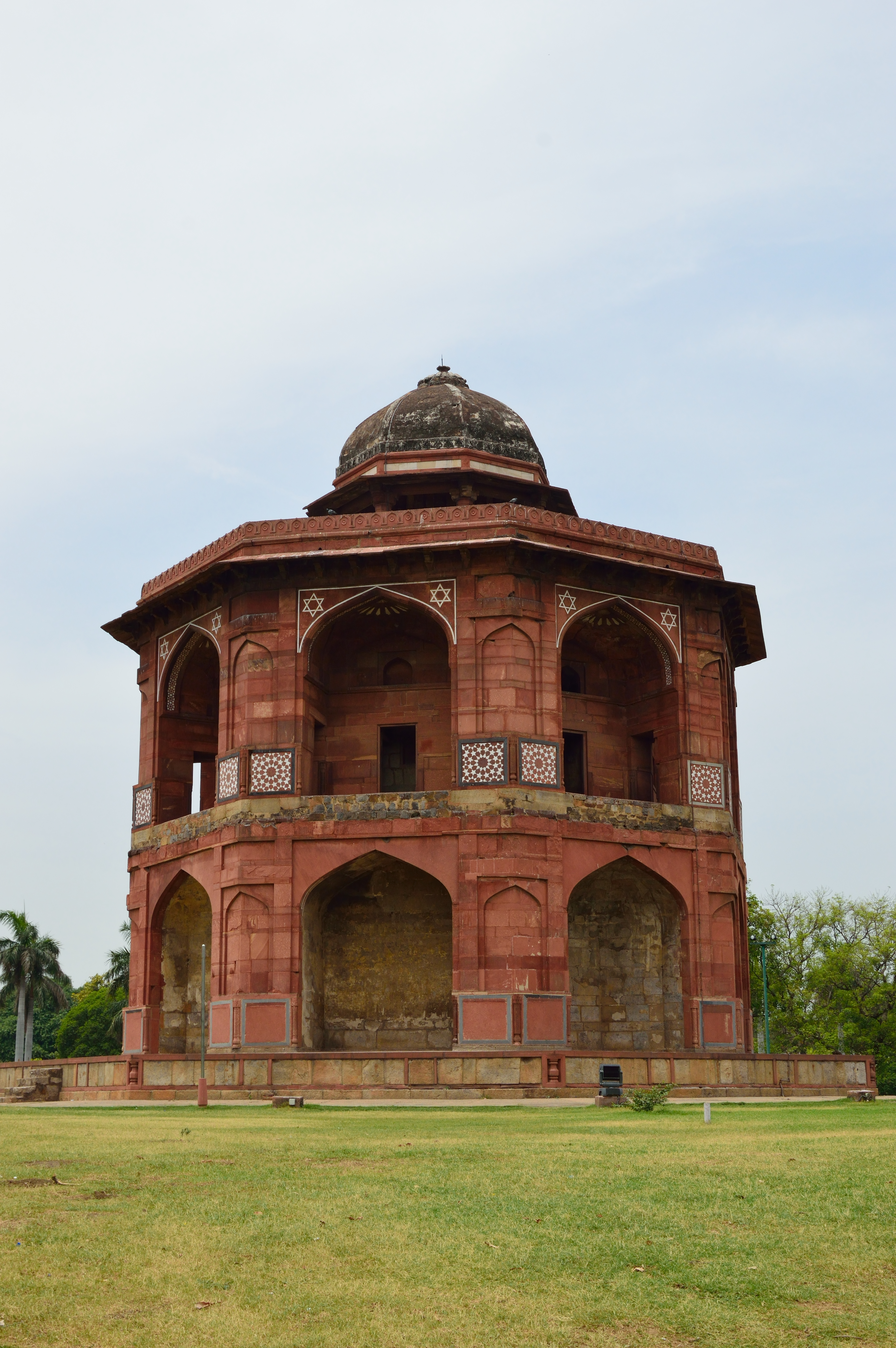 Photographed at the Old Fort or Purana Qila, New Delhi. This photograph has been uploaded during the 'Wiki Loves Monuments 2014' from India.